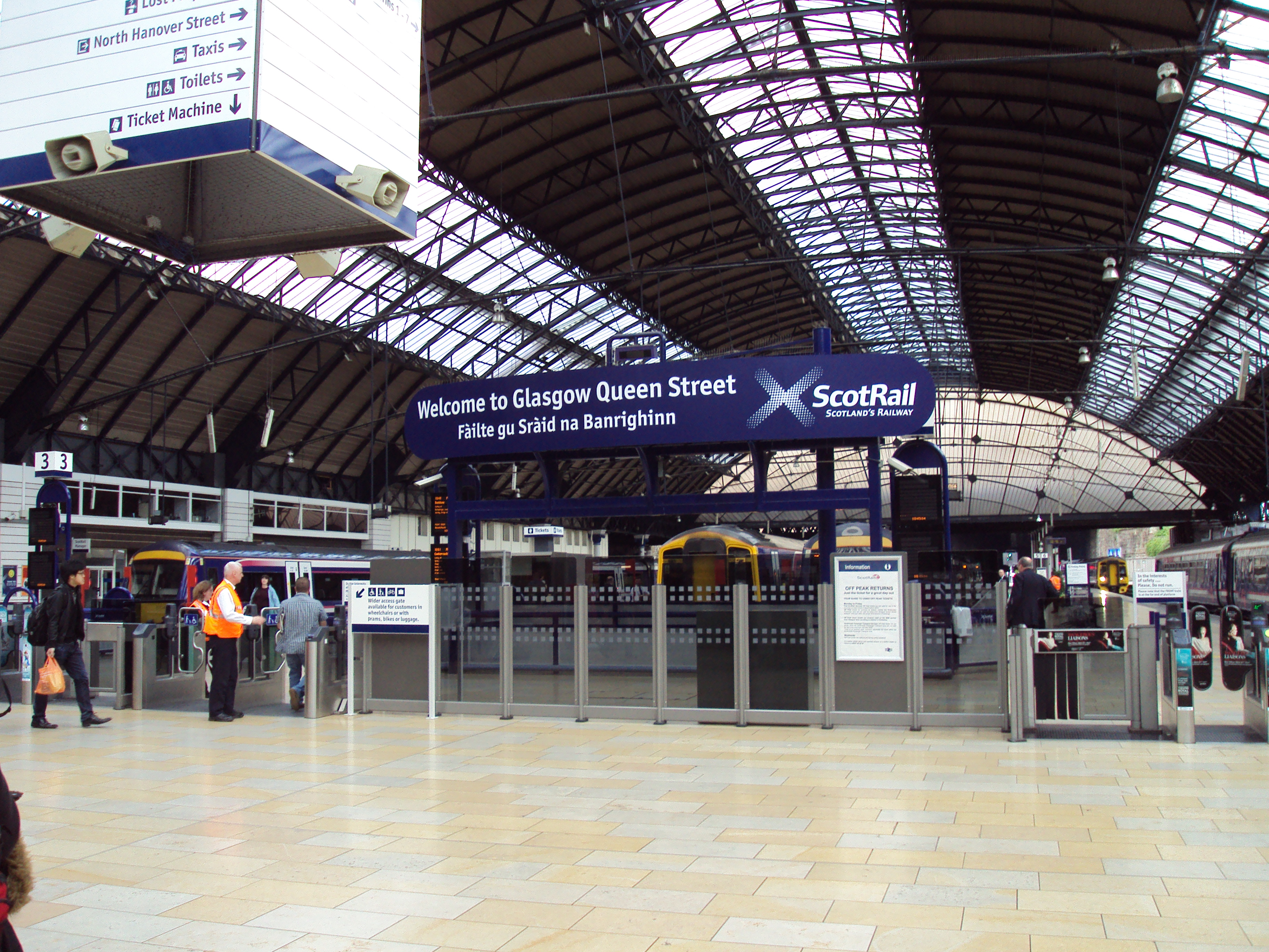 Inside Glasgow Queen Street railway station, Scotland.